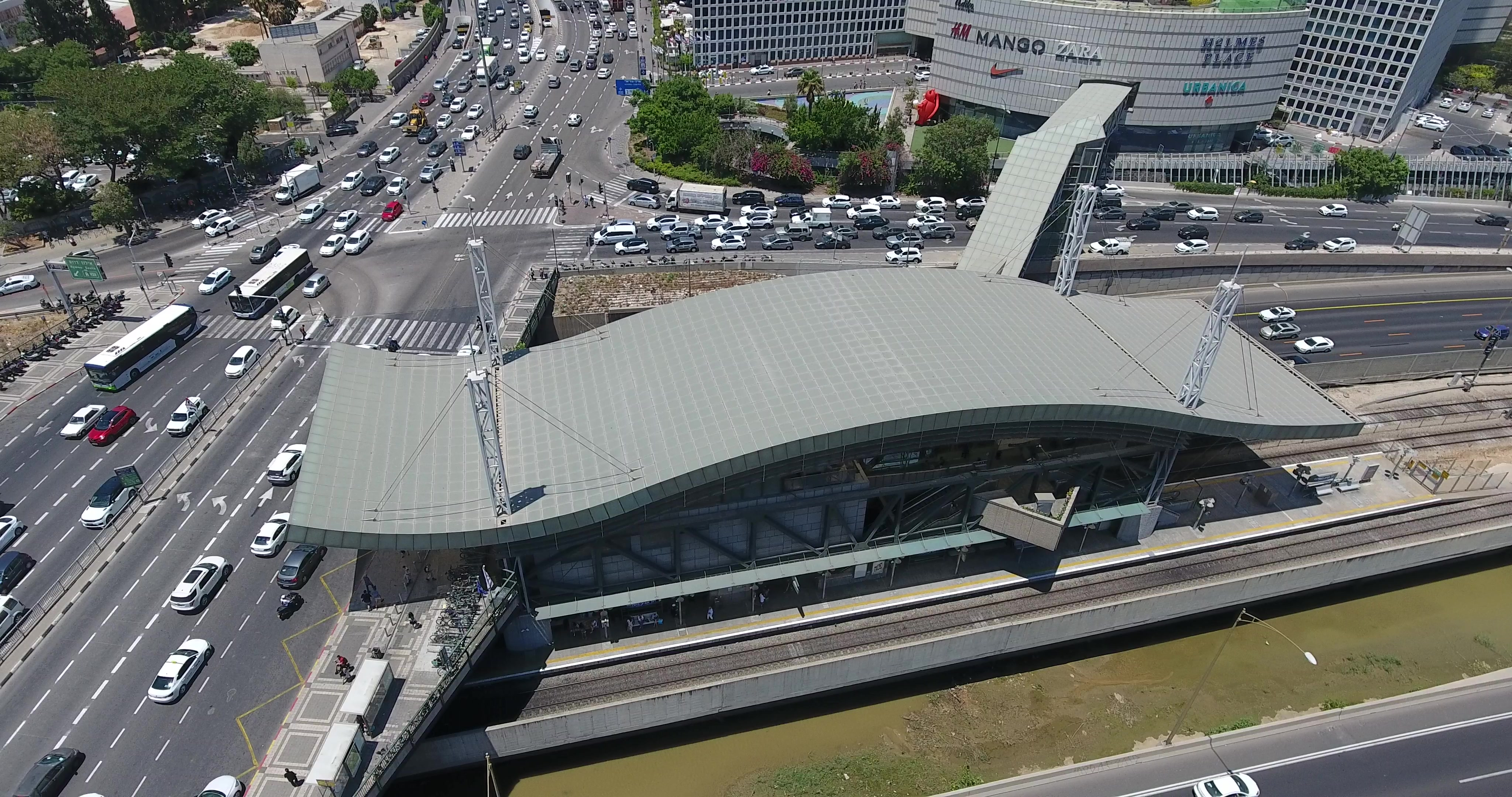 Hashalom railway station, Tel Aviv, july 2019